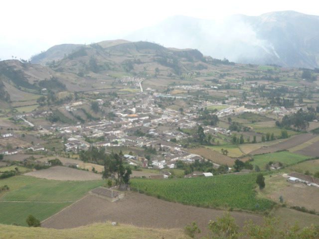 this is the funes town